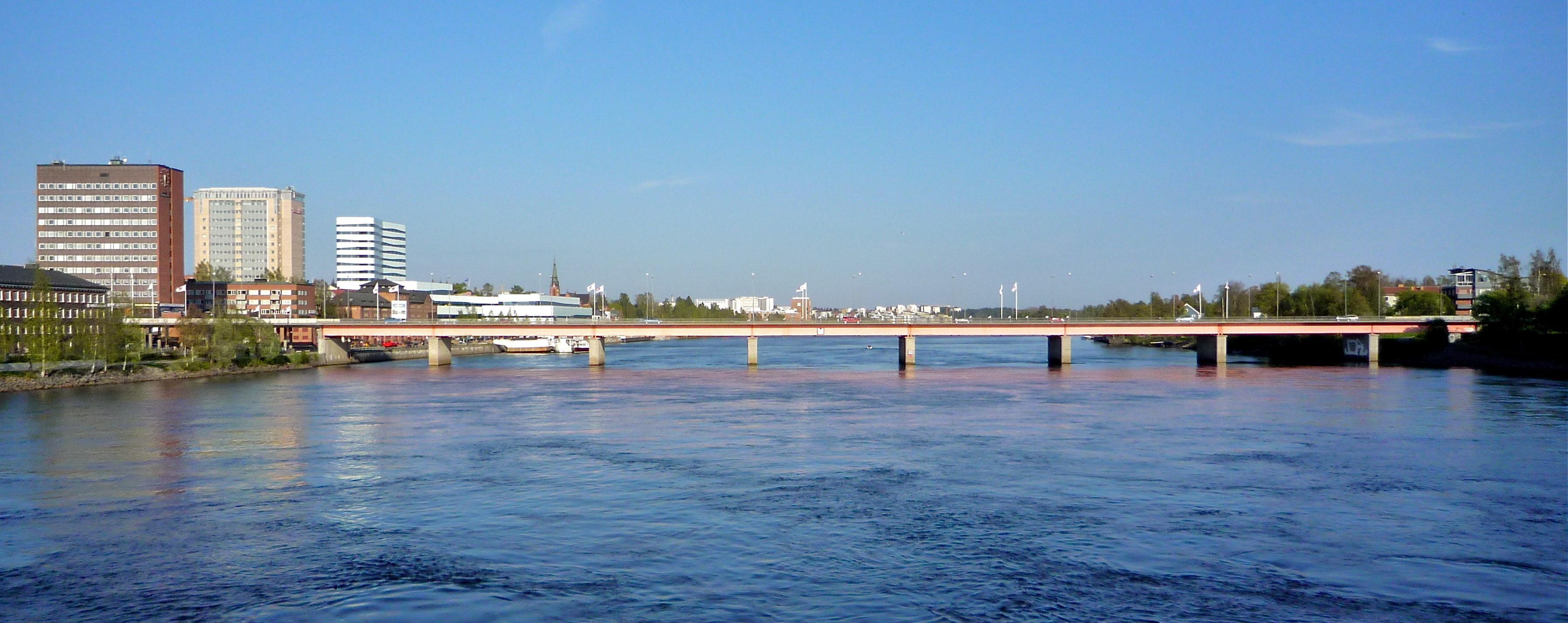 Tegsbron, photographed from Gamla bron (the Old bridge)